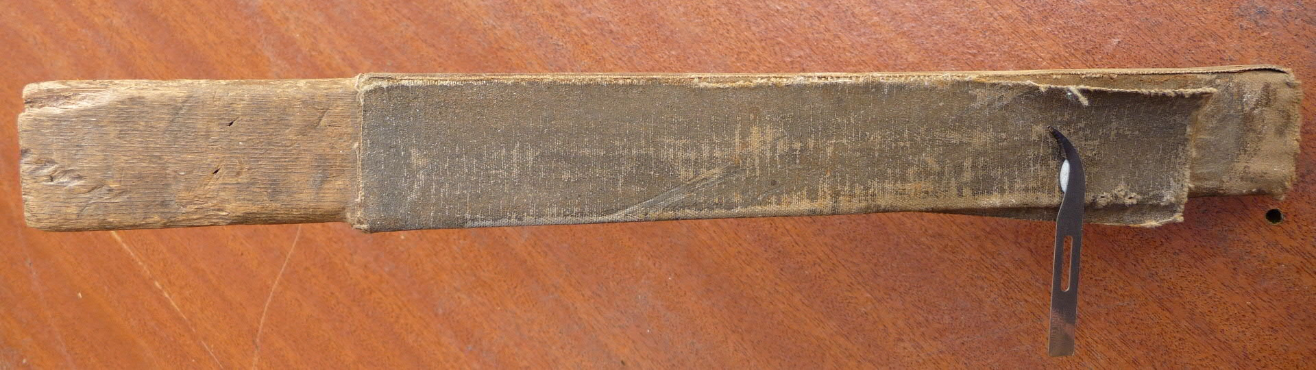 A vintage Rap Stick from 1940s used for sharpening a leather cutter's knife. A right-handed operator would hold the rap stick in left hand, stroking the blade rapidly but gently on the abrasive often to maintain a sharp edge, in a similar fashion to a butcher's knife and shapening steel. The knife blade is a medical item but approximates the shape of a clicker's knife blade.